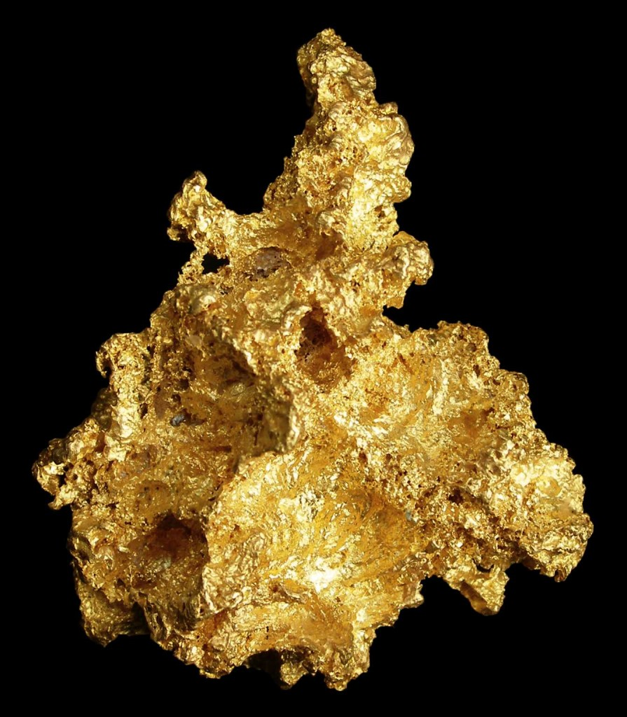 Gold Locality: Bendigo, Victoria, Australia (Locality at ) Size: 5.6 x 4.4 x 2.5 cm. A very elaborate, 3-dimensional cluster of gold that shows complex and minute crystallization patterns, and is overall hackly in texture. Weighing 130 grams or approximately 4.25 troy ounces, this is a very displayable and impressive nugget that is not just the typical flat pancake from this famous goldfield.